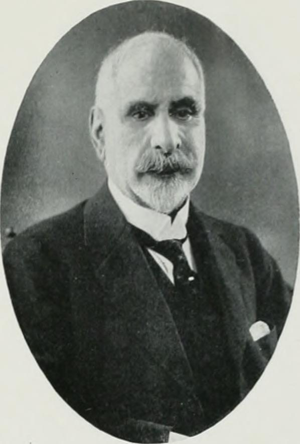 Title: Notable Londoners, an illustrated who's who of professional and business men Year: 1922 (1920s) Authors: Subjects: Publisher: London : London Publishing Agency Text Appearing Before Image: ARCHIBALD STODDART Manager, Russian Corporation, Ltd., also ISritish TrustAssociation, Ltd : Director, de Jersey and Co. (Finland),Ltd. ; Northern Eastern and European Trading Co., Ltd.Member of Executive Council, Russo-British Chamber ofCommerce, and on Committee Russian Section, LondonChamber of Commerce. Clubs : Gresham, British Empire.Recreations : Golf, tennis. Address : 32, Bishopsgate, E.C. 2.(Photo: RusscU) Text Appearing After Image: EMM.ANUEL -MICHEL RODOCA.NACHI, M.A.(0.\on.) Educated Westminster, Trinity College, O.xford. Is SeniorPartner of Rodocanachi Sons and Co. ; Director of London,Joint City and Midland Bank, Ltd ; Chairman of CityOffices Co., Ltd. : Director. Westminster Chambers Associa-tion, Ltd., and Bank of .Athens; also on the Court of theGardeners Company. A keen motorist. Member of NewUniversity, Royal Automobile, Sandown Park, and KemptonPark Clubs. Residences • 66, Westbourne Terrace, \\.2.and Chios, Worthing. (Intuitu: Bas^iinn)